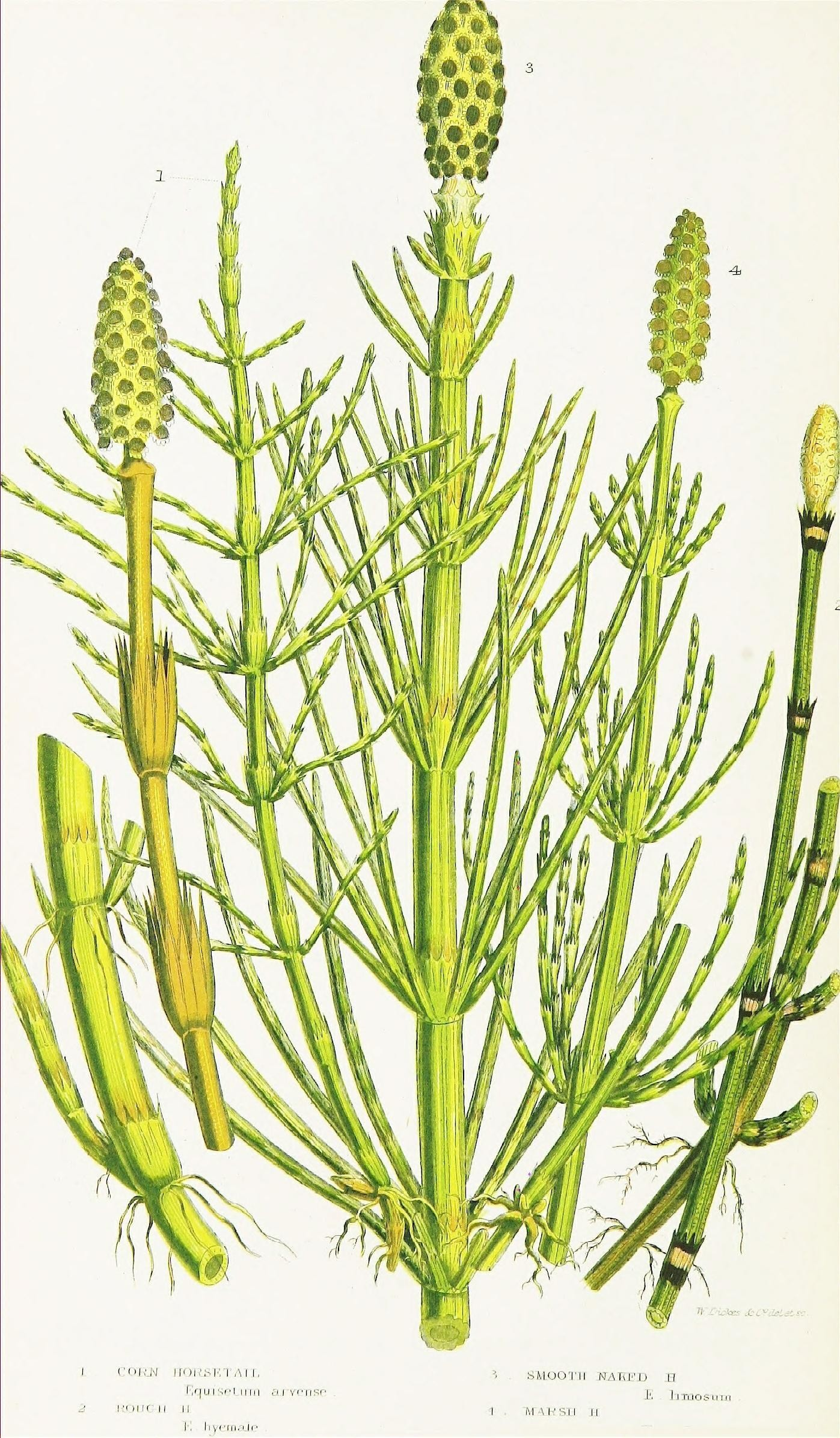 The ferns of Great Britain, and their allies the club-mosses, pepperworts, and horsetails /